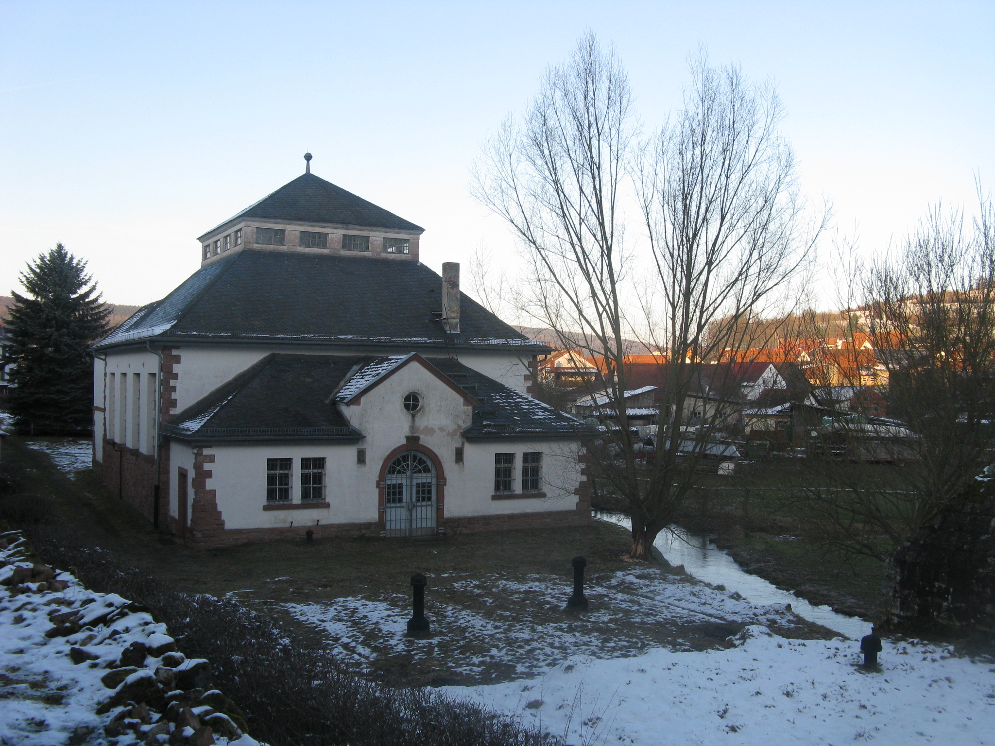 Mernes/Spessart, Germany; Historic water pumping station